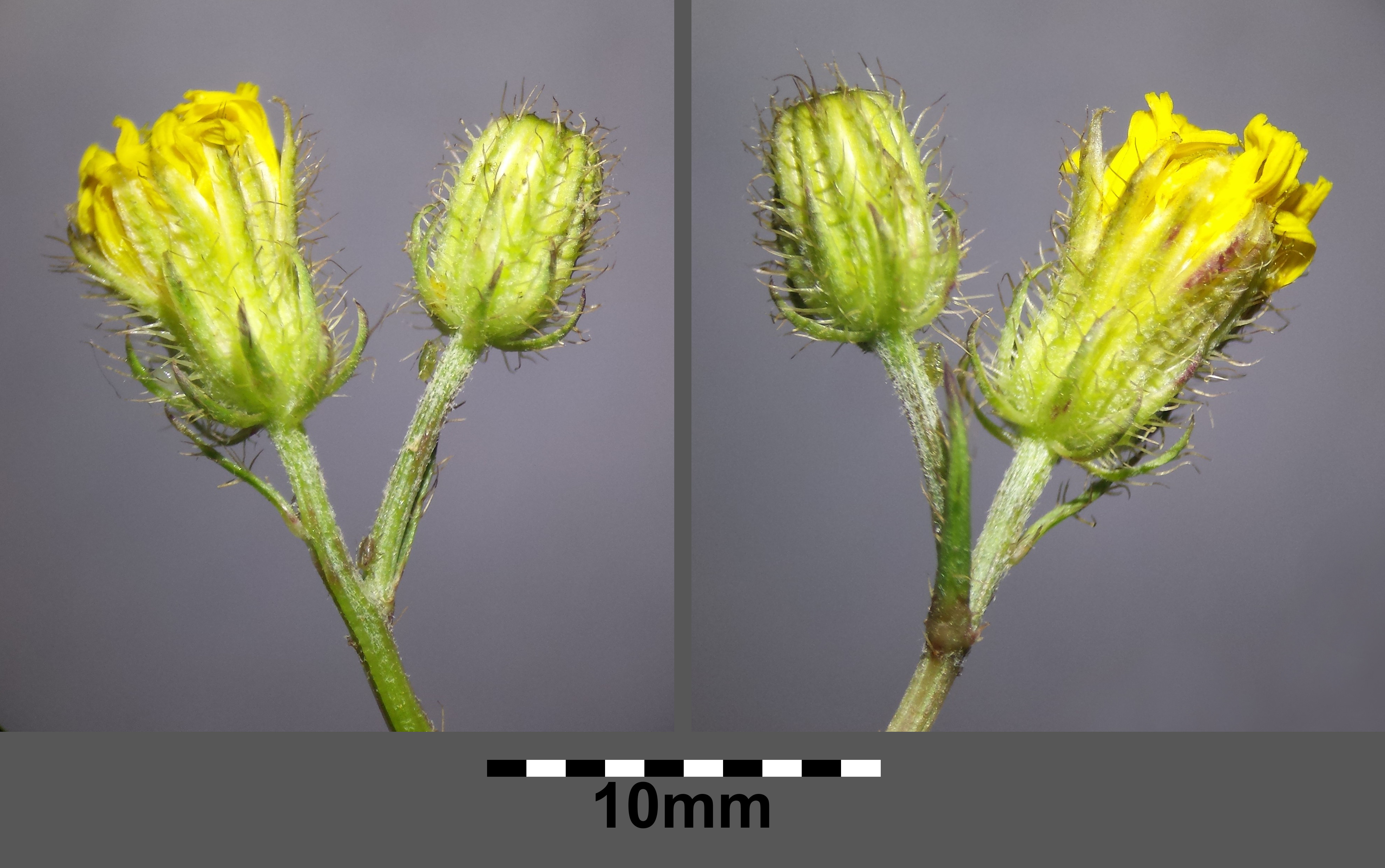 Flower baskets Taxonym: Crepis setosa ss Fischer et al. EfÖLS 2008 ISBN 978-3-85474-187-9 Location: Bahnhof Bad Neusiedl am See, district Neusiedl am See, Burgenland, Austria - ca. 120 m a.s.l. Habitat: ballast